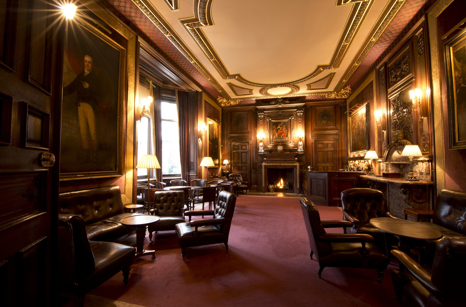 View of the Savile Club's bar, empty of members, after the 2009 refurbishment and the later ceiling decoration. Taken for the Club around 2015 and suppled by Club to use on its Wikipedia page. Other information This photographed was taken for the Savile Club and the file suppled to me by email specifically to update the Savile Club Wikipedia page